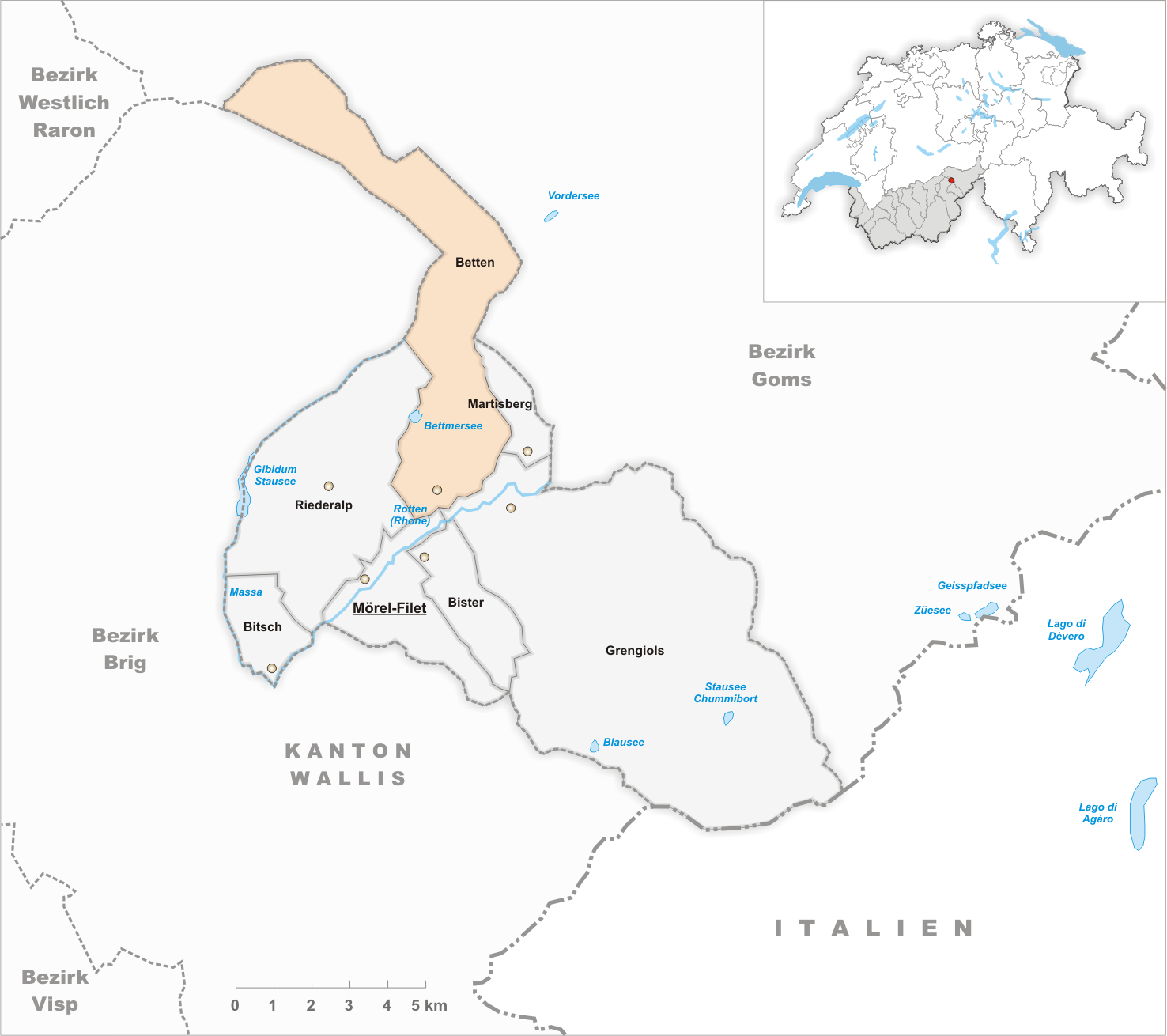 Municipality Betten